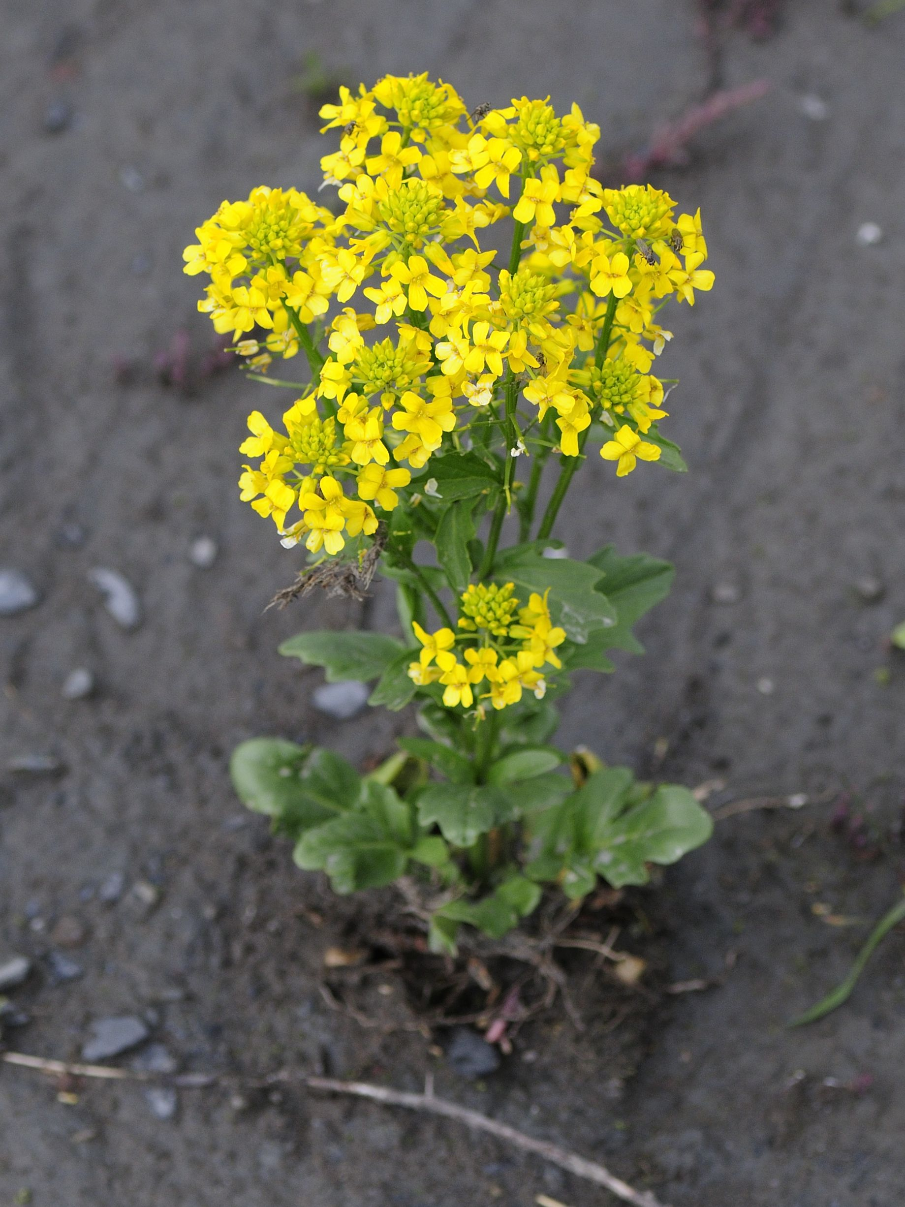 Please report references to .